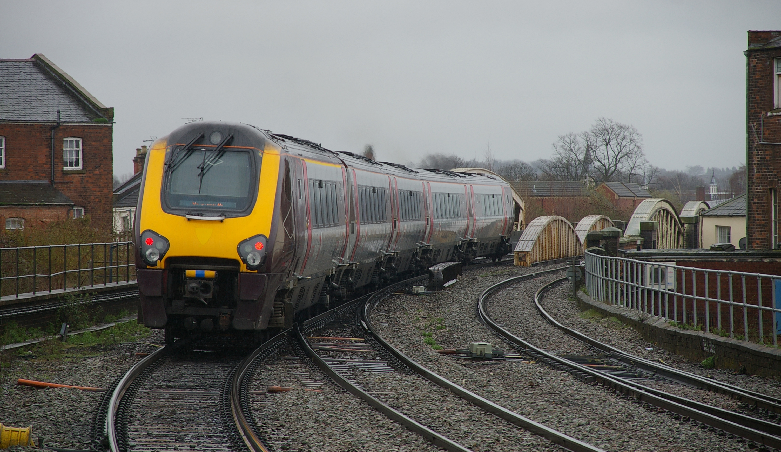 221127 departs Leamington Spa with a service to Bournemouth.